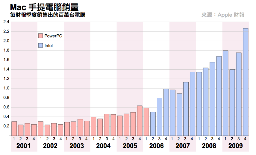 Mac portable sales chart 中文（香港）: Mac 手提電腦銷量圖，為字體美化採用另外製作png格式